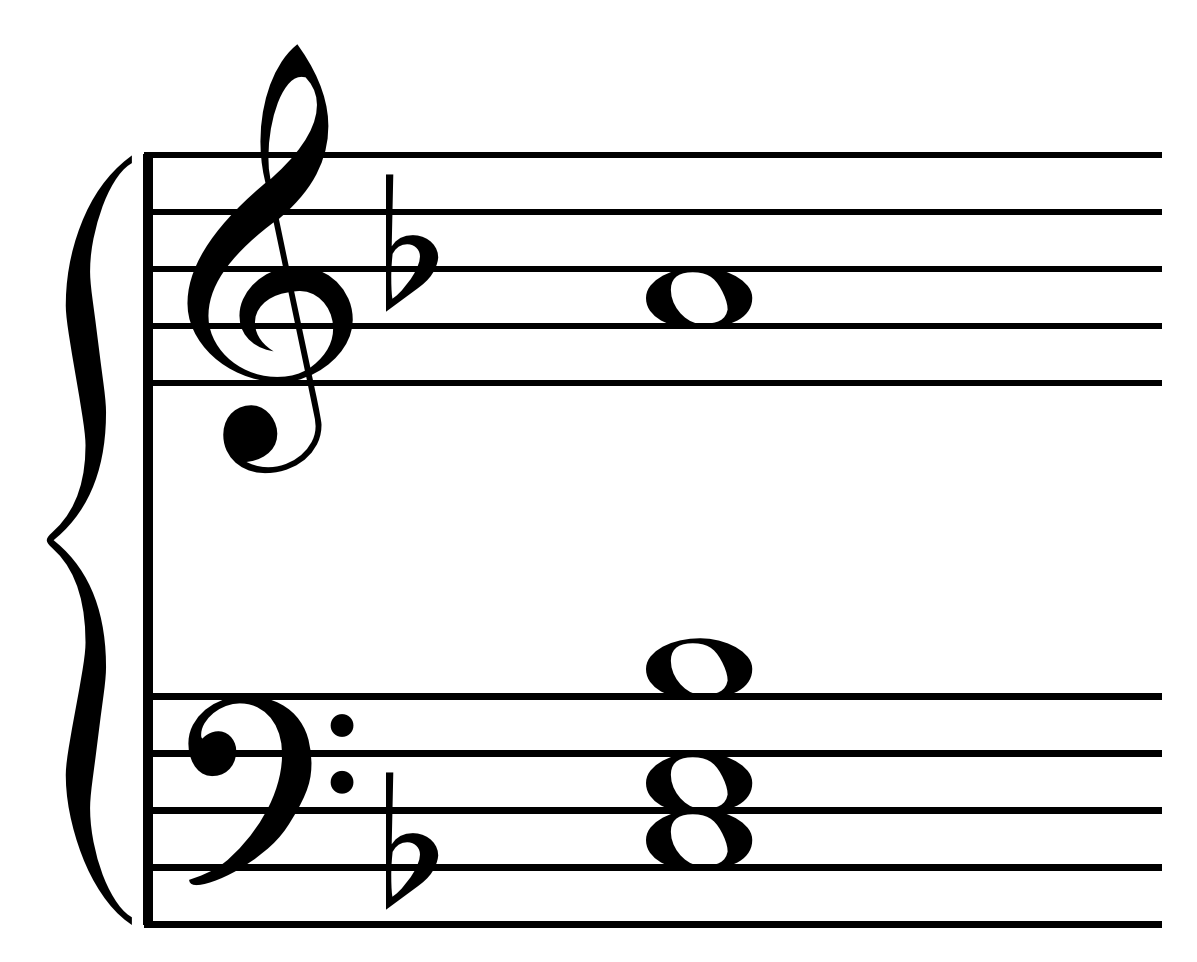 Dominant thirteenth chord in four-part writing.